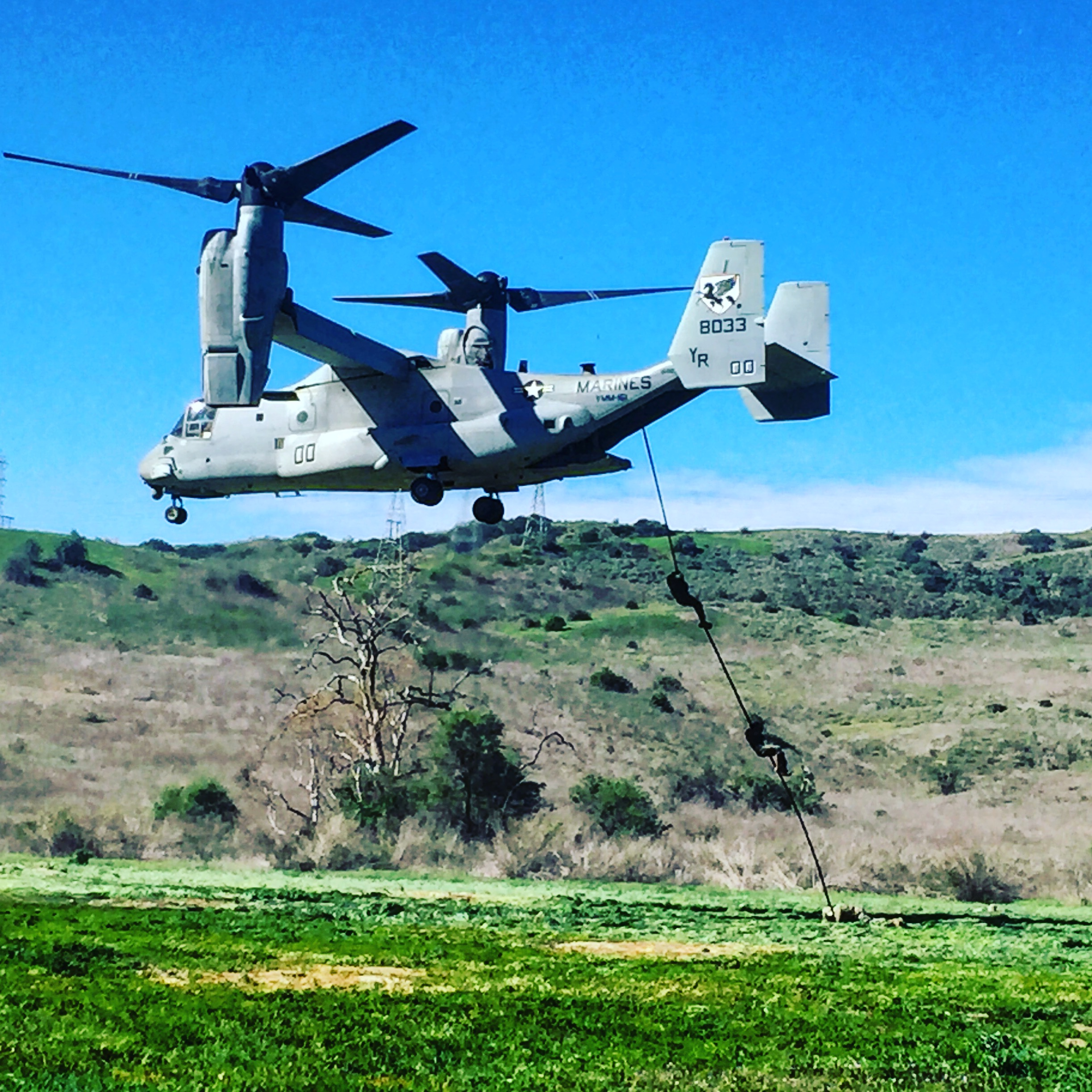 VMM-161 "Greyhawks" Blake Fisher executing fast rope operations in MCAS Camp Pendleton.